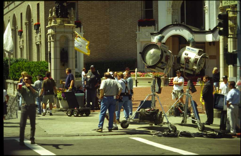 This is a part of the filmset from the movie Mrs. Doubtfire in the streets from San Francisco